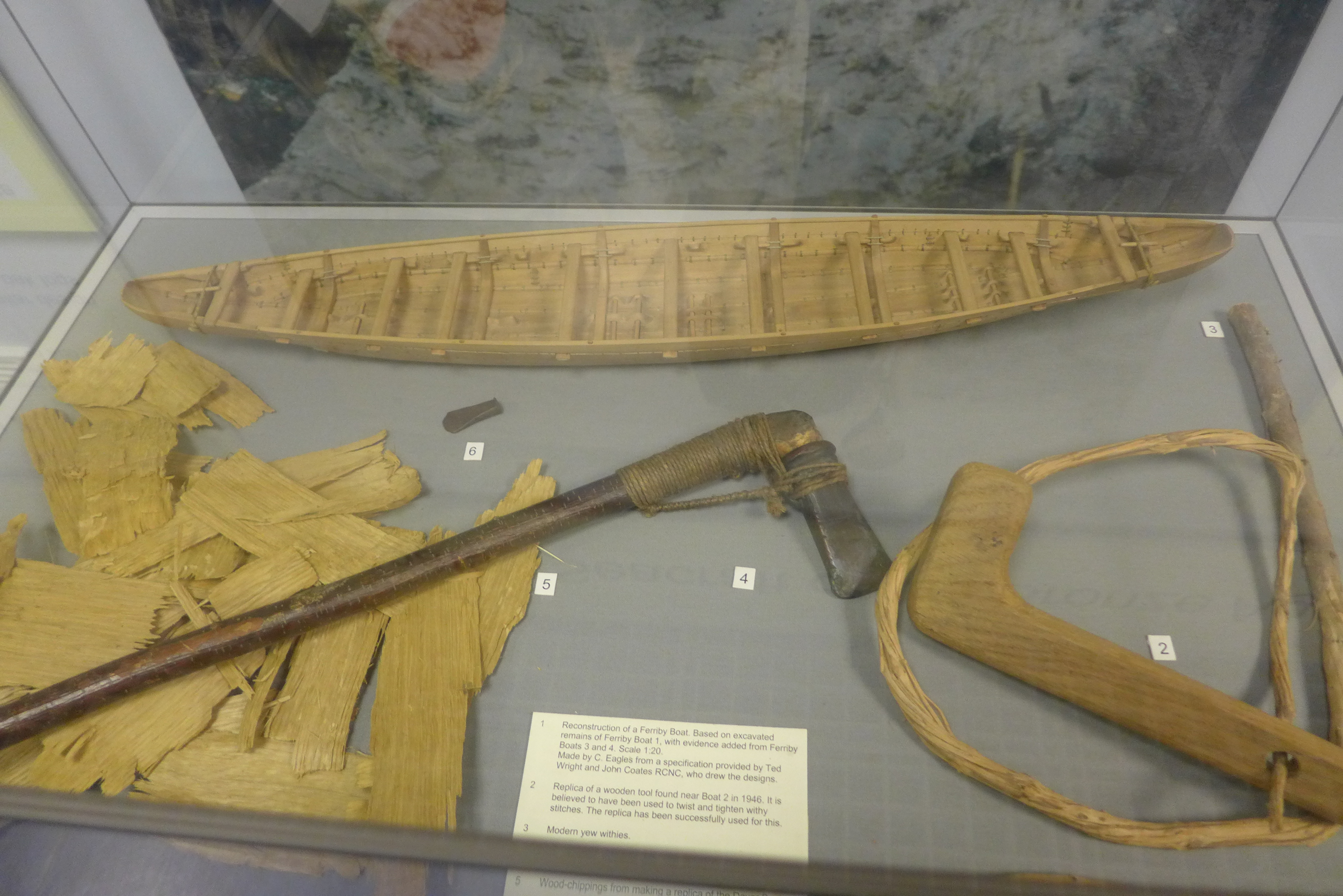 Hull Museum Ferriby boat replica